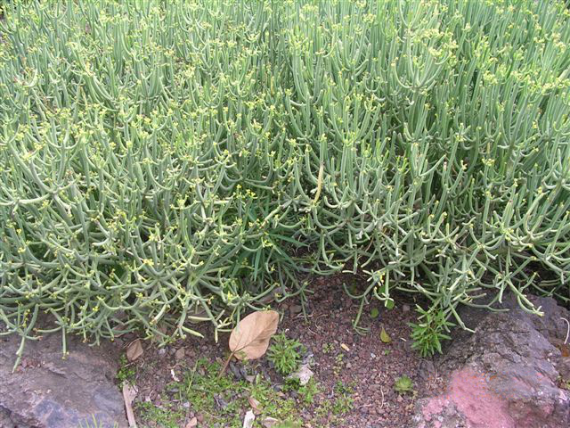 Euphorbia aphylla A work released per the GNU Free Documentation License by: FRANCISCA JIMENEZ (Gran Canaria) Spain